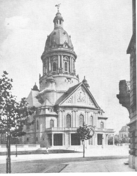 Christ church Mannheim easttown, 1911